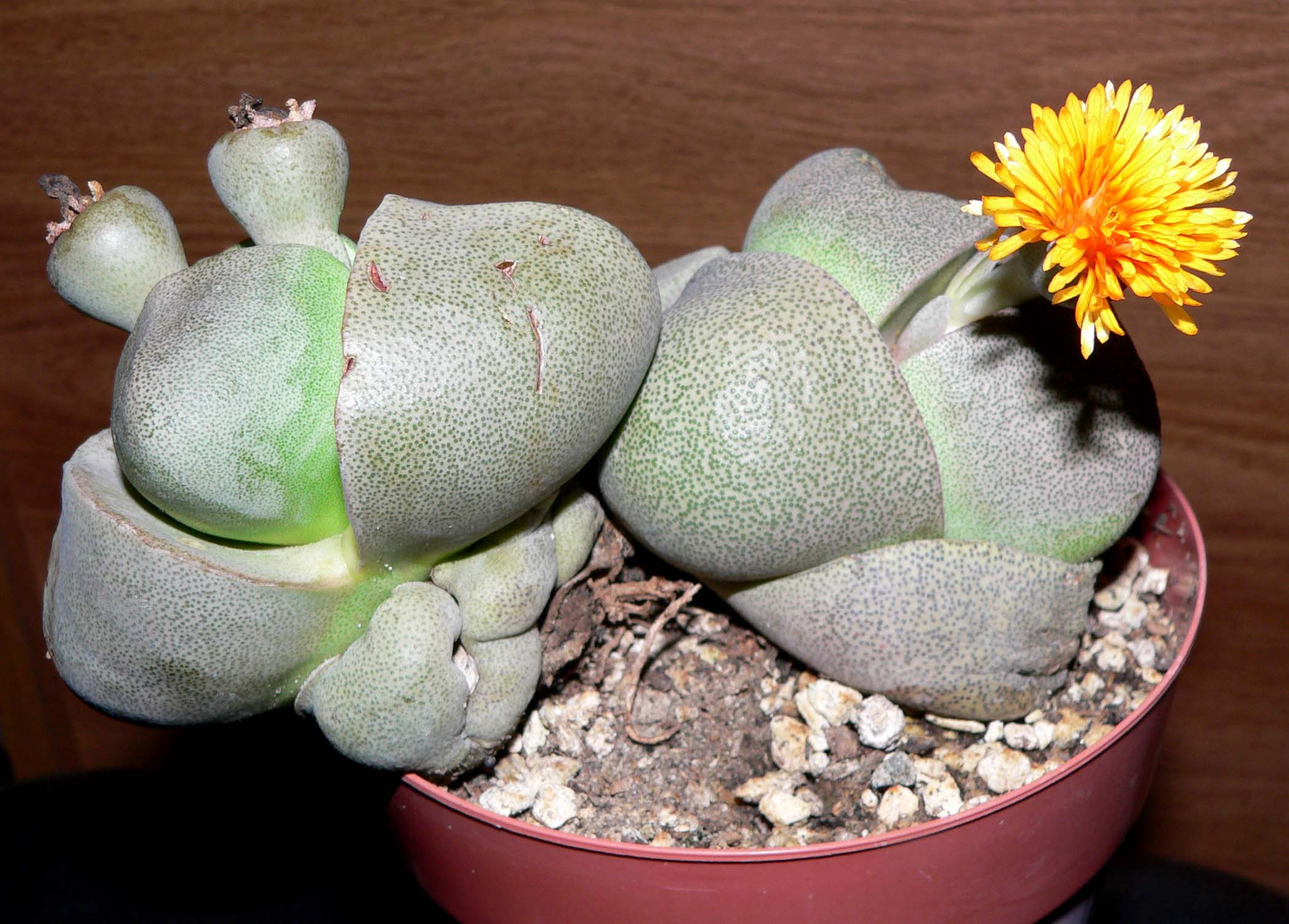 Photo of Pleiospilos nelii (split rock) in cultivation